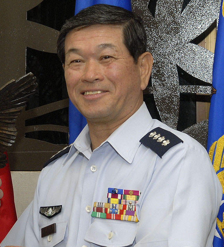 General Kenichiro Hokazono, Japan Air Self-Defense Force chief of staff